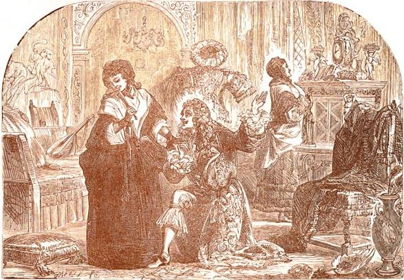 Robert Fielding marrying Mary Wadsworth, 1705.